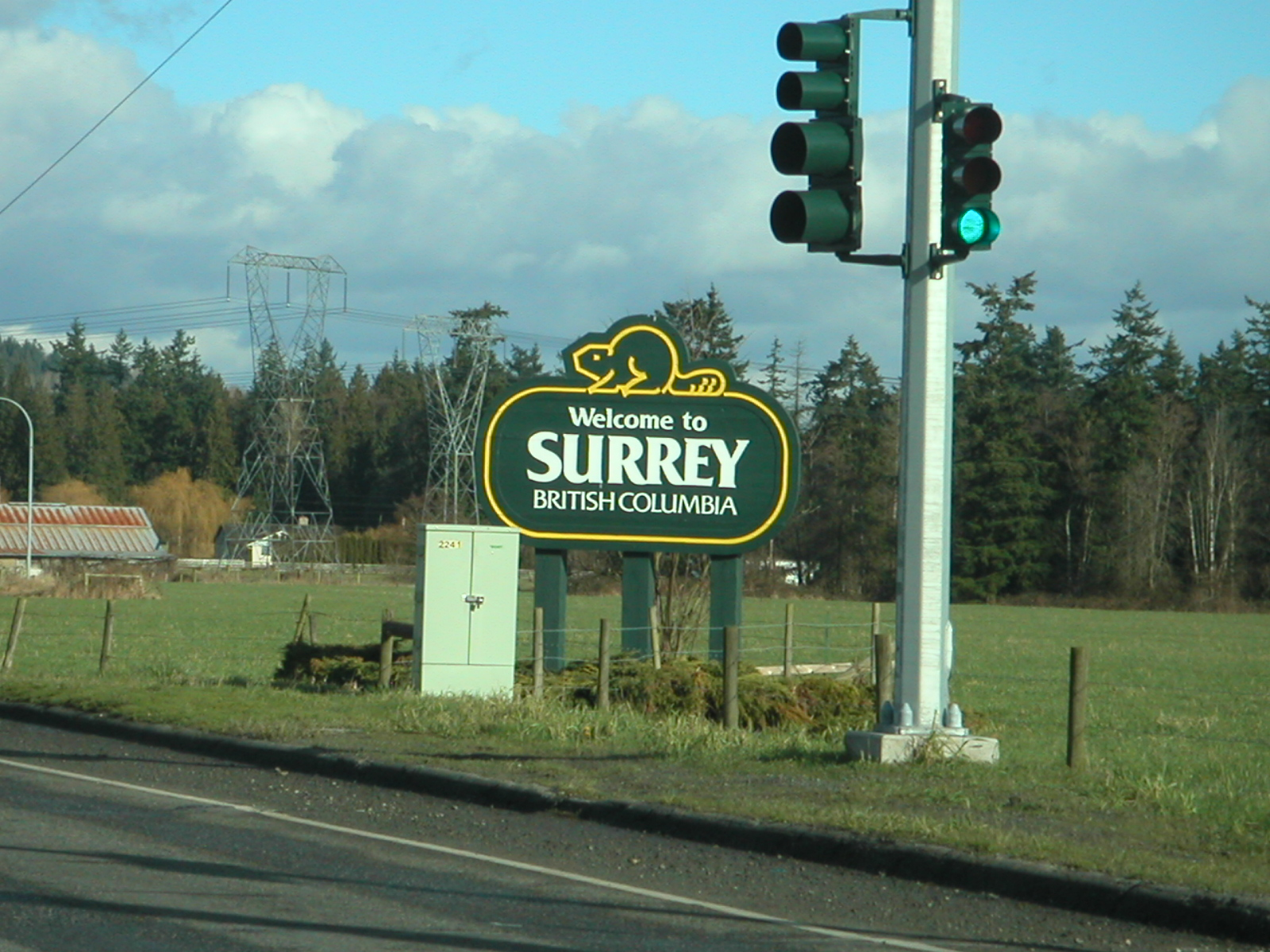 A road sign near the US-Canada border welcoming visitors to the City of Surrey, British Columbia, Canada.Welcome to Surrey